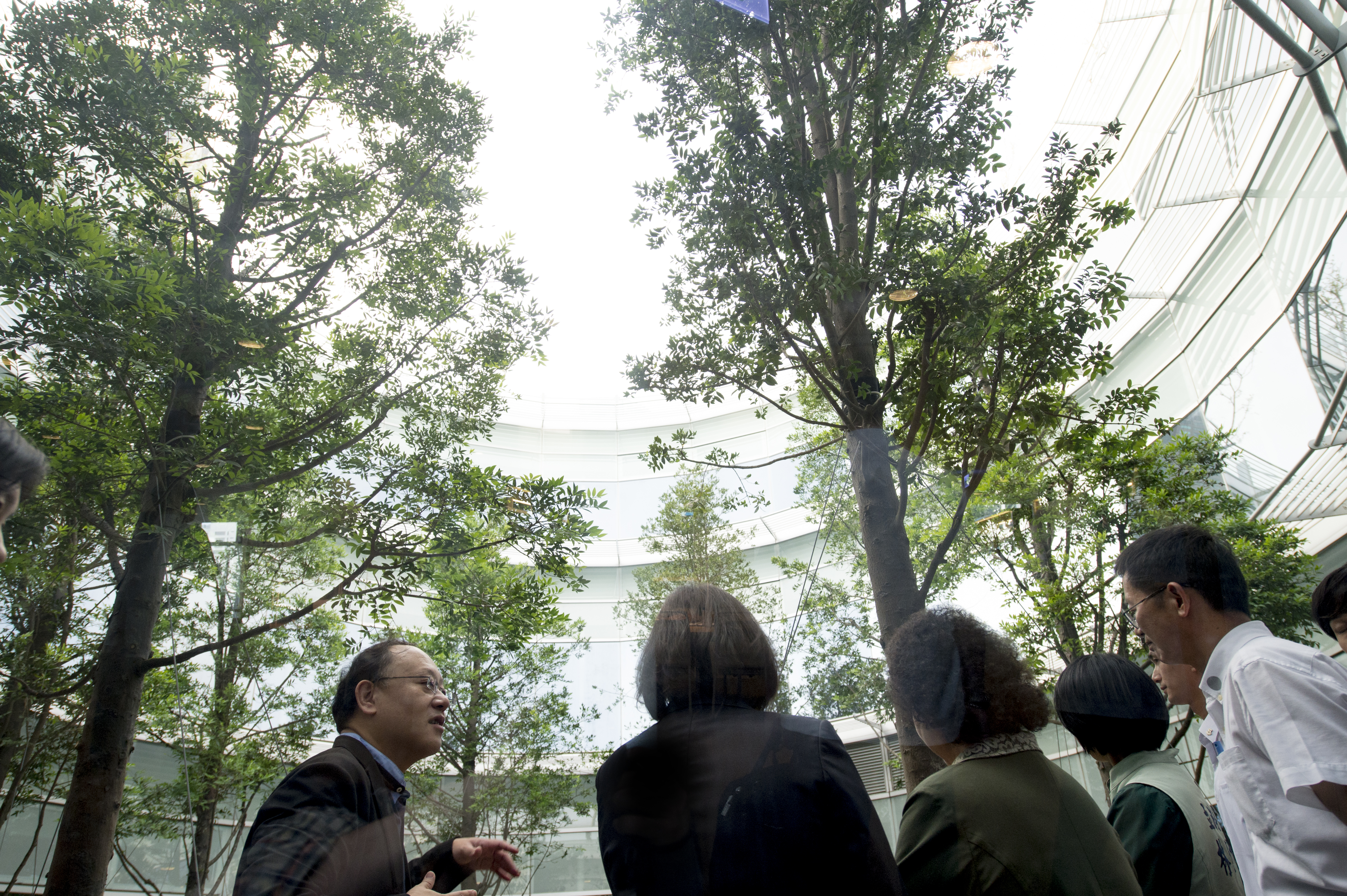 President Tsai tours Kaohsiung City’s Main Public Library, which topped a survey of “the 10 libraries you must visit” in Taiwan.